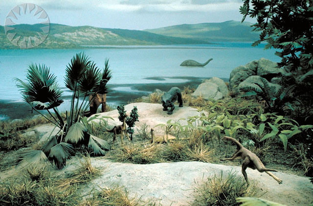 SI Neg. 77-9344. Date: 1977...Cretaceous Diorama, Dinosaur Hall, National Museum of Natural History ..Credit: Alfred F. Harrell (Smithsonian Institution)